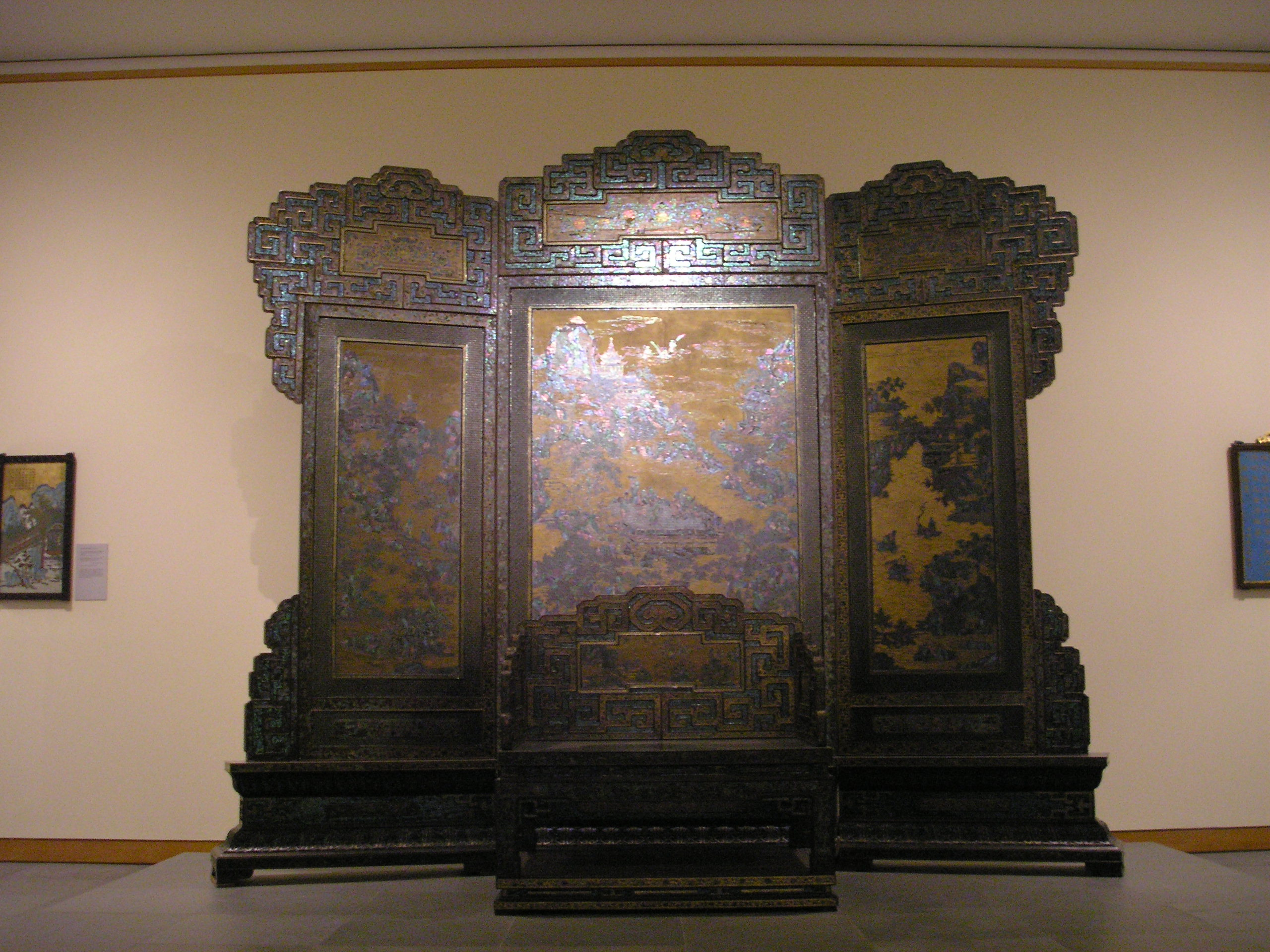 Imperial throne and three-fold screen. Rosewood with mother-of-pearl lacquer, gold and silver foil and coloured lacquer. Qing Dynasty. Formerly Collection of Fritz Löw-Beer, New York. Located at the Museum für Ostasiatische Kunst, Berlin-Dahlem. The throne and the screen are from the imperial workshops in the beginning of the era of the Kangxi Emperor (1662-1722). The main theme of the decorations is the Taoist concept of the "Western Paradise", which is ruled by the "Queen Mother of the West" (Xiwangmu). The screen shows scenes of mountains, valleys, seas, terraces, lakes, and palaces. Shown is the arrival of the Queen Mother, who is shown riding a phoenix. The eight immortals are awaiting her arrival, they are shown on the screen and again on the throne itself. Museum of Asian Art Native nameMuseum für Asiatische KunstParent institutionBerlin State Museums LocationBerlinCoordinates52° 27′ 21″ N, 13° 17′ 33″ E Established4 December 2006Web page[1]Authority control : Q370045 VIAF: 153451772 ISNI: 0000 0004 4893 5104 LCCN: no2007157600 GND: 10163291-5 SUDOC: 146108868 WorldCat institution QS:P195,Q370045